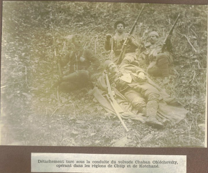 IMARO cheta of Shaban Obleshevski, Shtip region